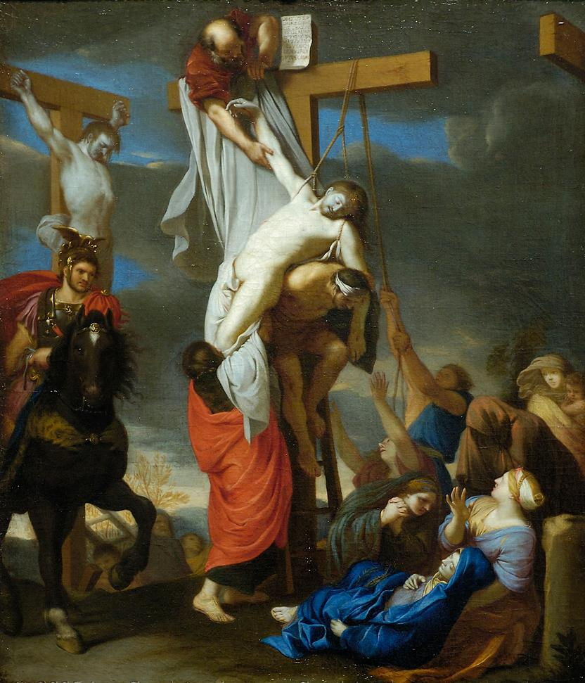 The Deposition